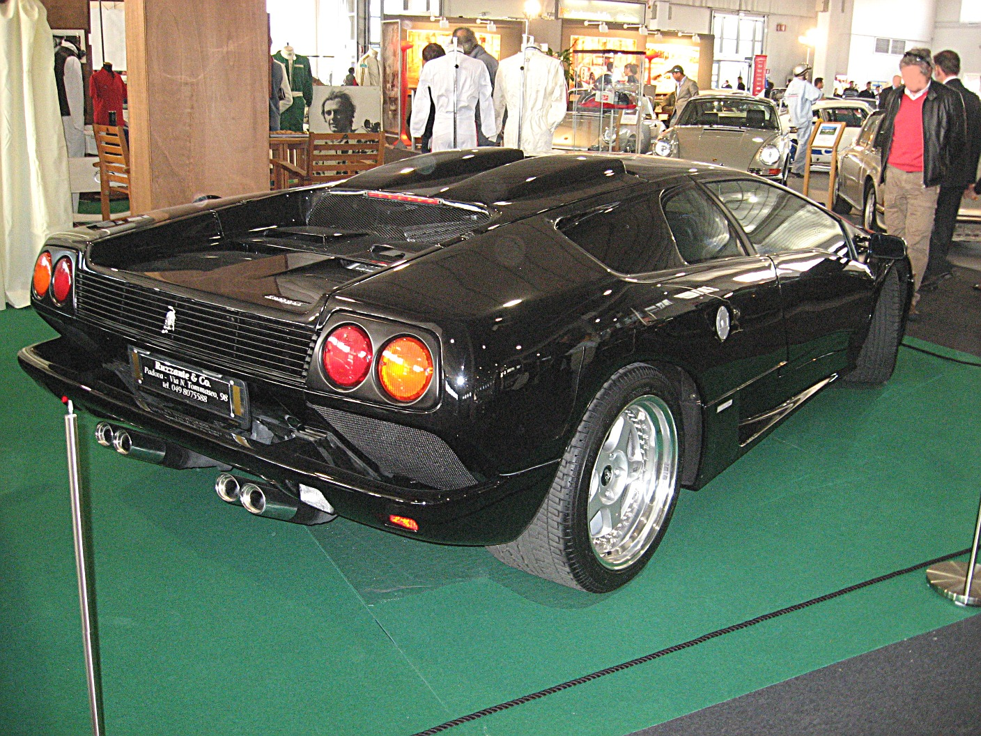 Subject: Lamborghini Diablo SE Jota Date:October 26th, 2008 Event: Auto e Moto d'Epoca 2008 Place/Country: Padova, Italy I release all rights in the public domain.